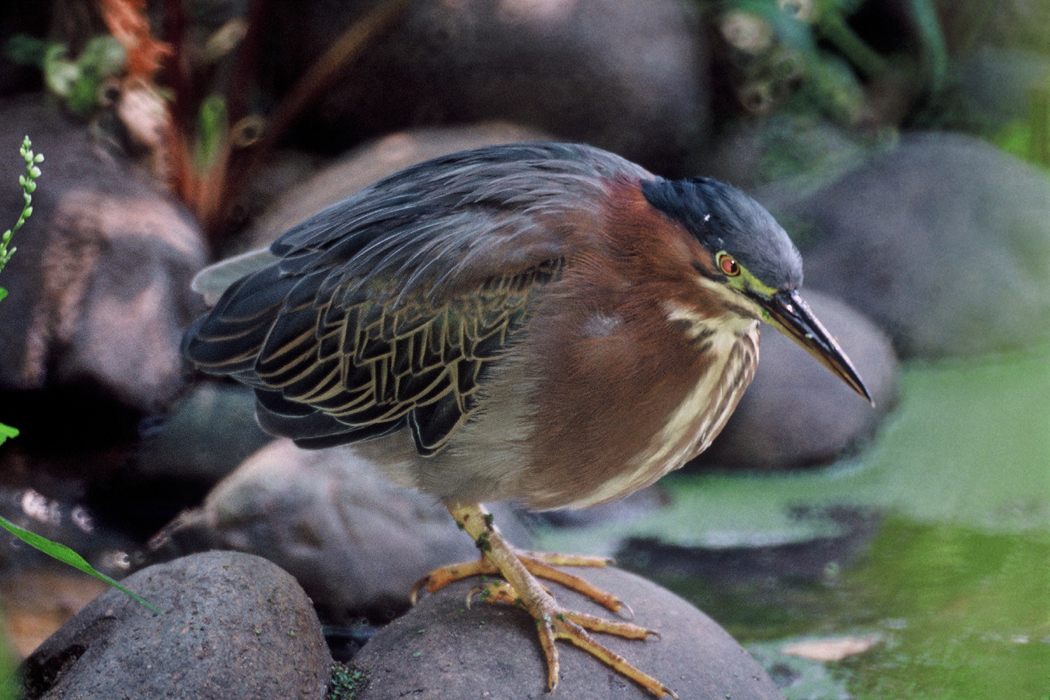 Green Heron, Butorides virescens